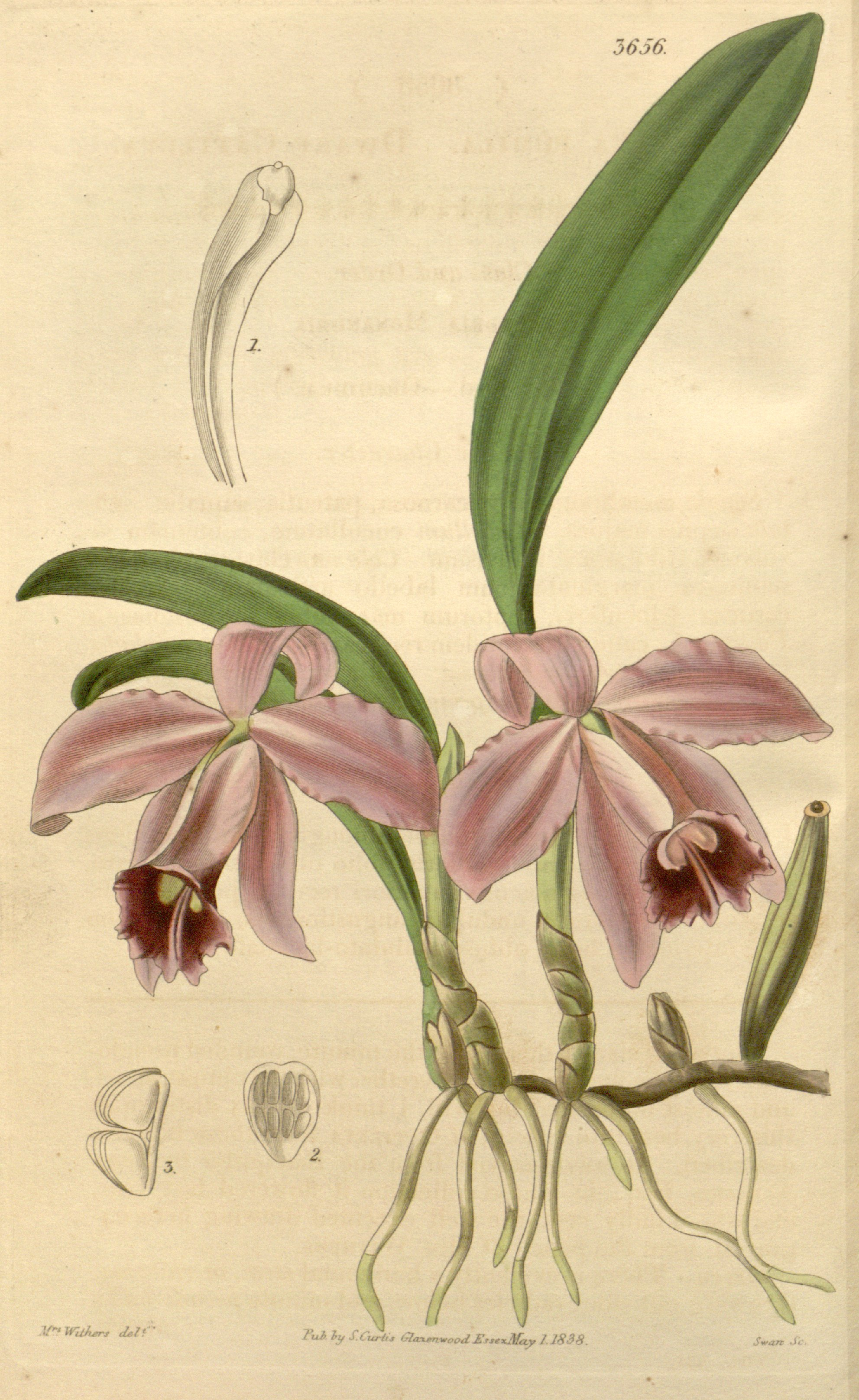 Illustration of Sophronitis pumila (as syn. Cattleya pumila)